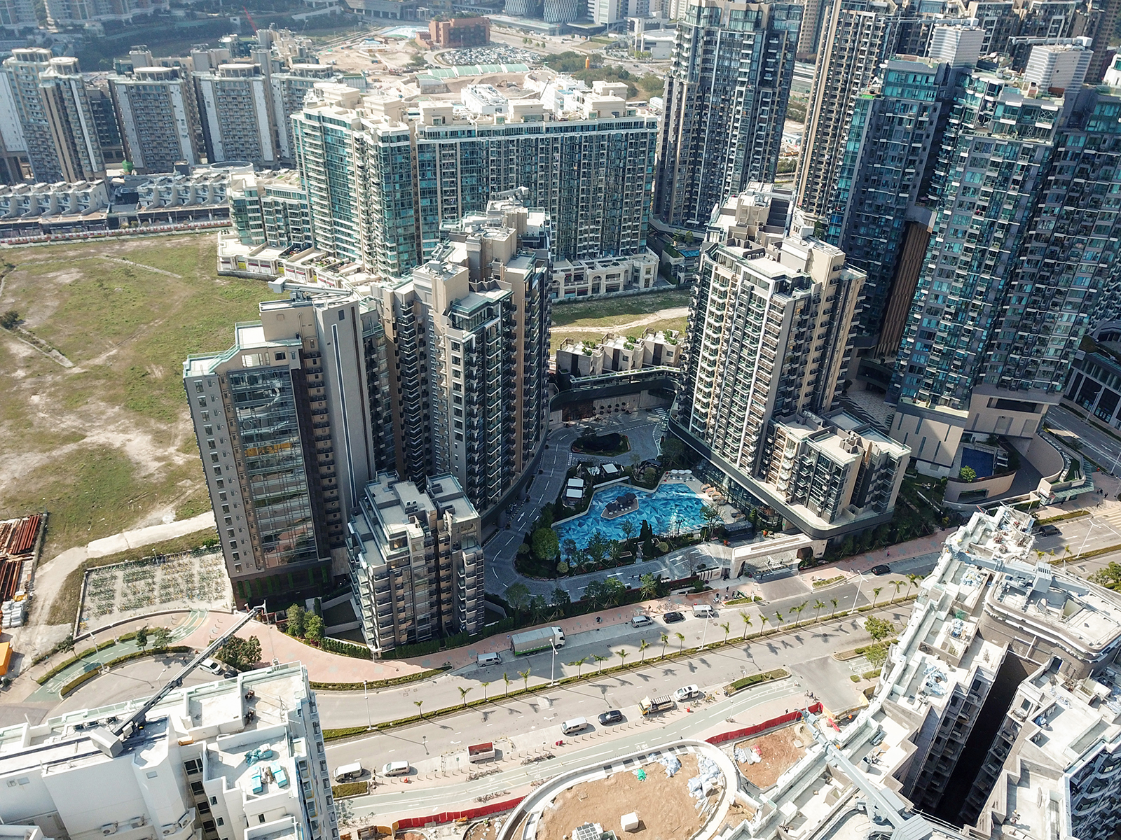 Ocean Wings